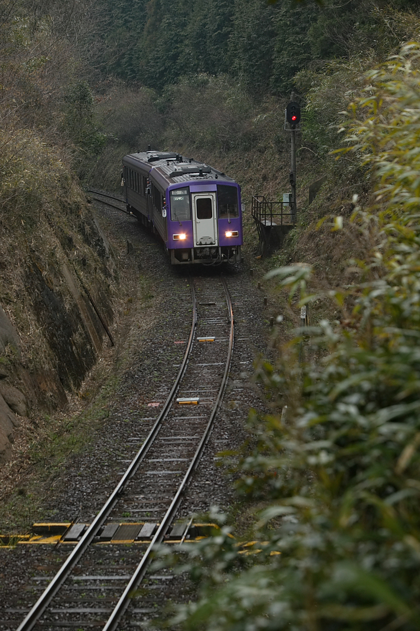 JR West Kansai Main Line. The section of Kameyama railroad dept.